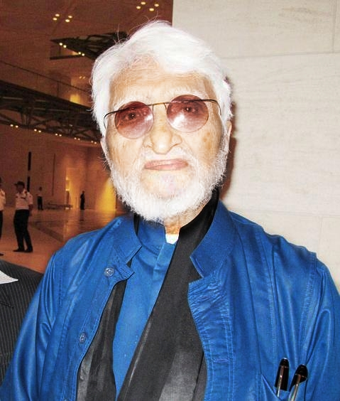 MF Hussain' Photograph